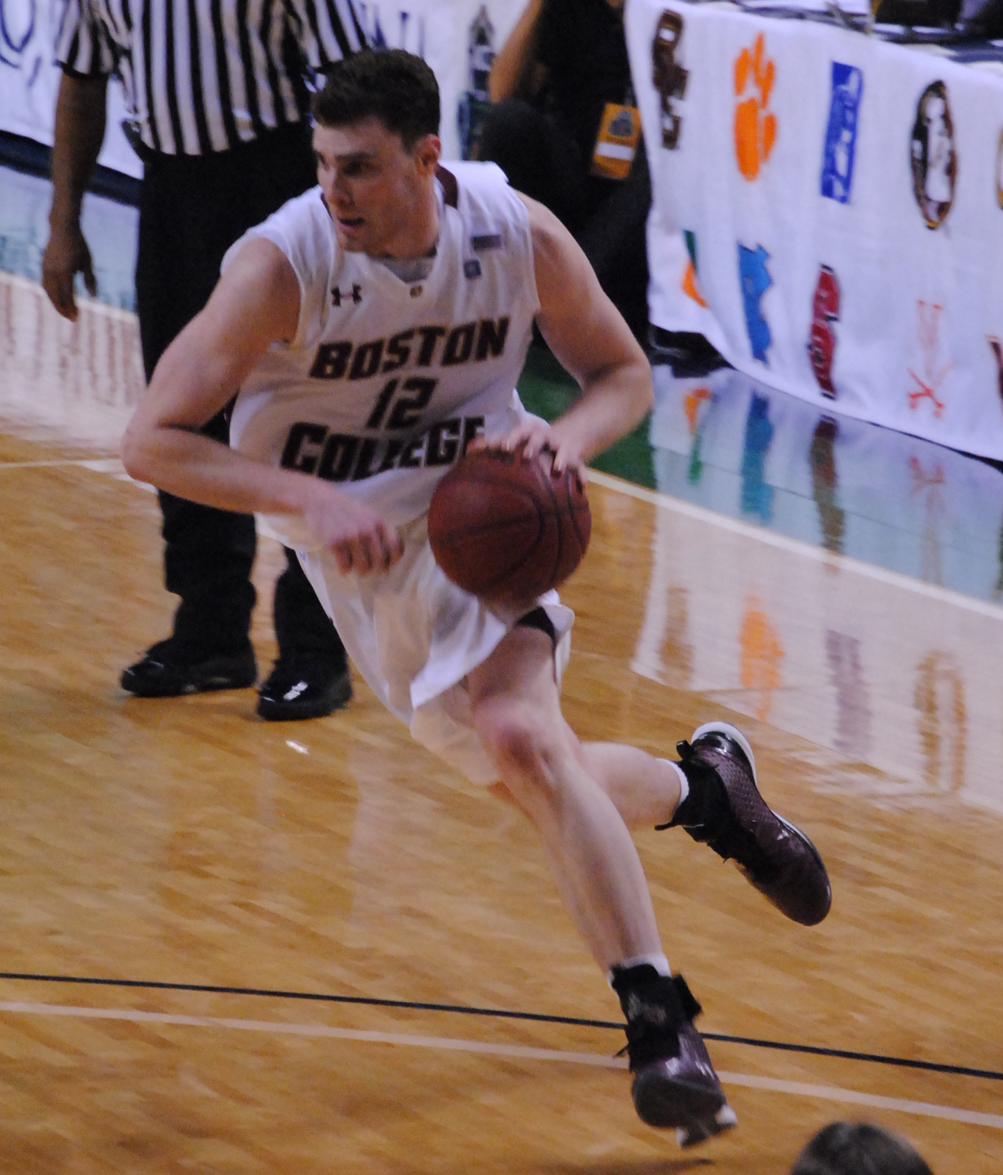 Joe Trapani handles the ball for the Eagles